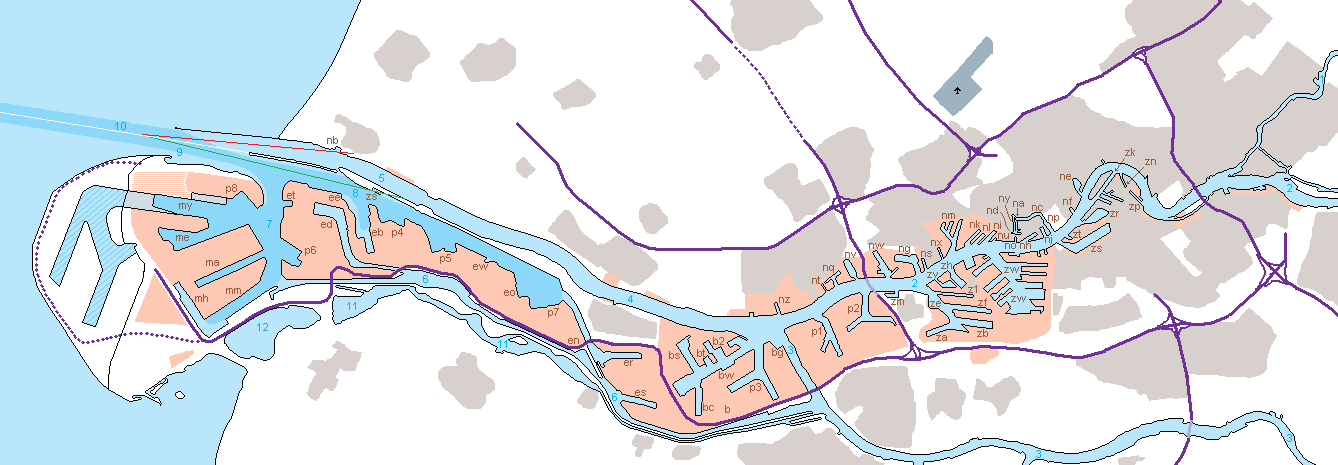 The harbour of Rotterdam with all the waters and harbours numbered. Details: the Maasgeul (Eurogeul) and other deeper water in darker blue 3 leading lights: white, red and green, for ships to enter the harbour in orange the harbour grounds, in grey the rest of the city and surrounding villages, in purple the highways